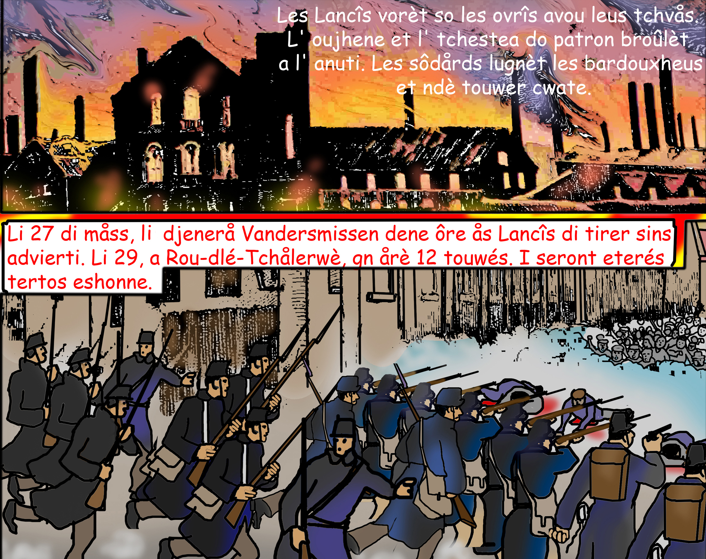 Drawing of Walloon Jacquerie of 1886, from drawing on old newspapers, made for the autumn 2010 issue of Walloon magazine "Li Rantoele". Walon: Dessinaedje do Bardouxha pås ptitès djins di 1886, fwait d' après des dessins di ç' trevén la, pol limero do waeyén-tins del Rantoele.